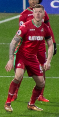 Alfie Mawson playing for Swansea City against Chelsea at Stamford Bridge, London on 29 November 2017